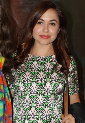 Actresss Kelly Paterniti at the Star Trek Into Darkness Premiere in Sydney, Australia